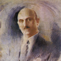 Nikos Kitsikis, Greek Civil engineer